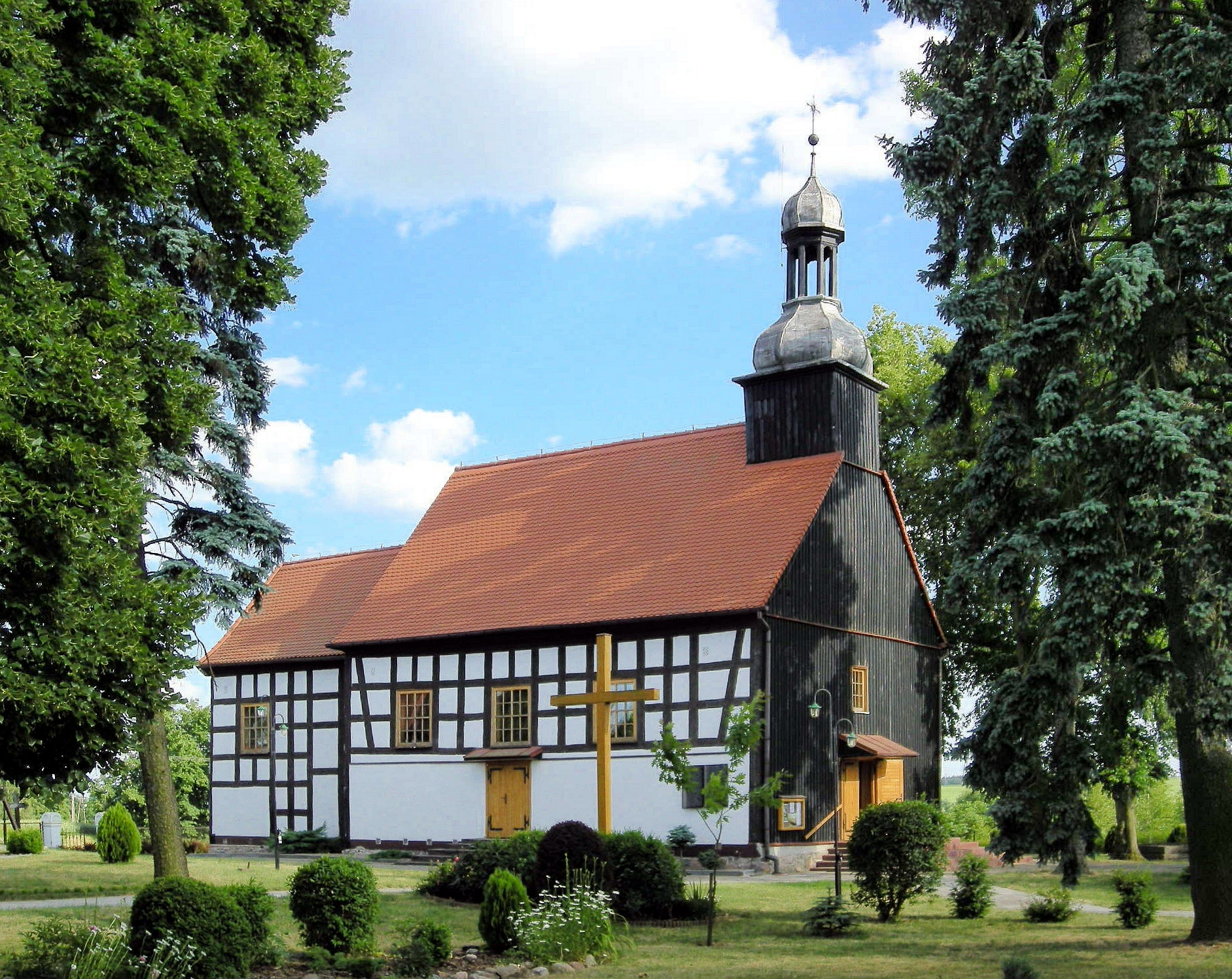 The church in Brzyskorzystew, Poland.